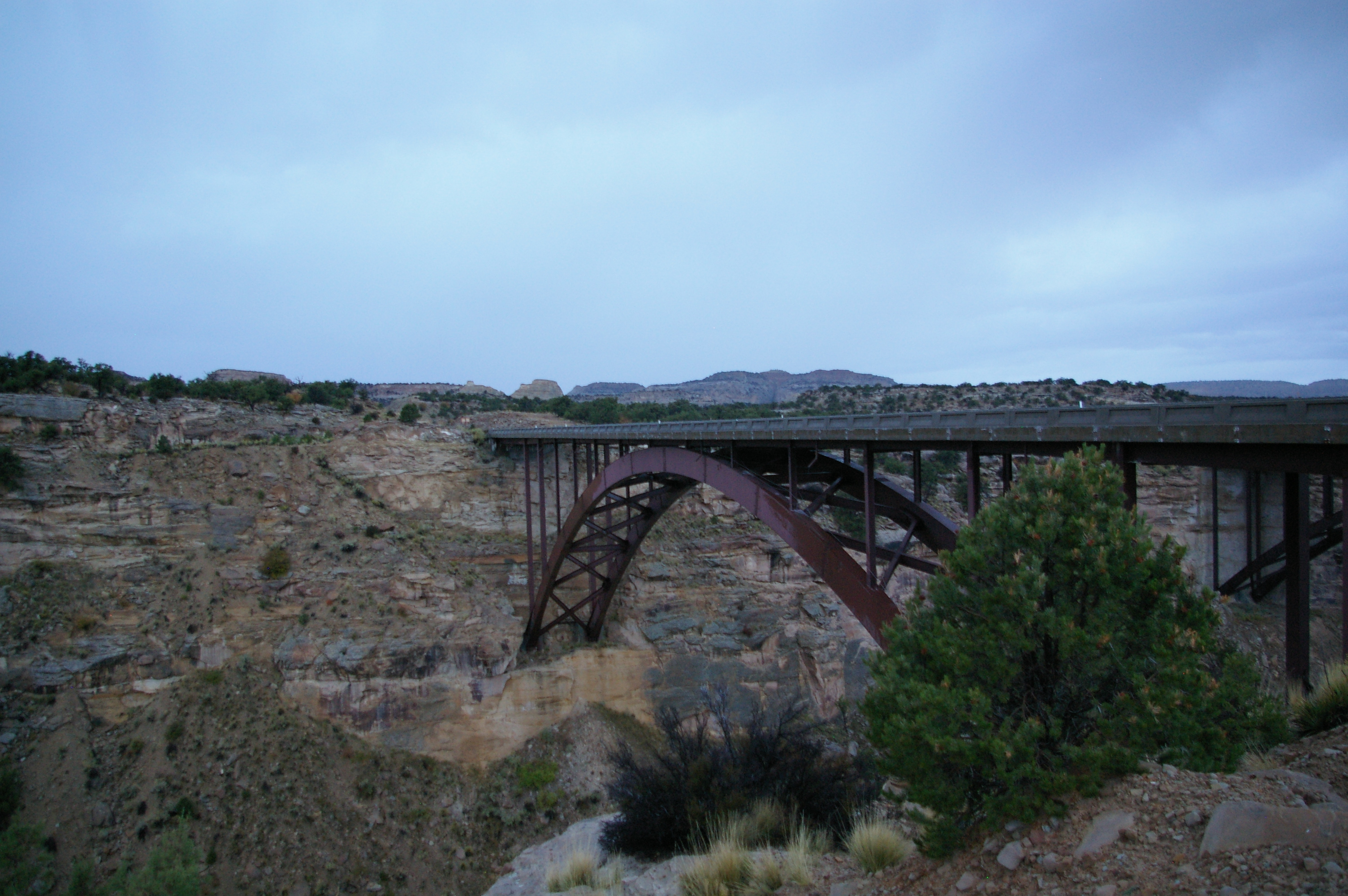 Bridge over Eagle Canyon on Interstate 70 inside the San Rafael Swell